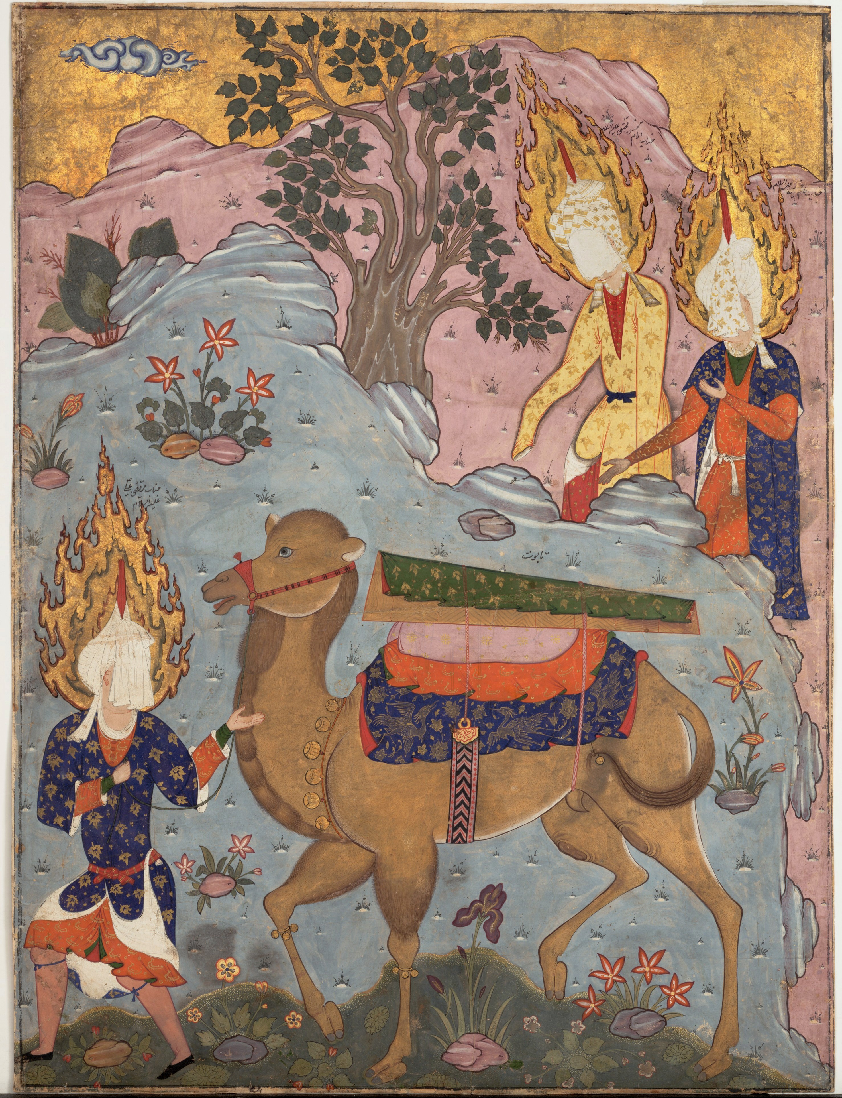 Funeral of Fatima, Folio from a Falnama (Book of Divination) mid-1550s–early 1560s Iran, Tabriz. Metropolitan Mus. N-Y